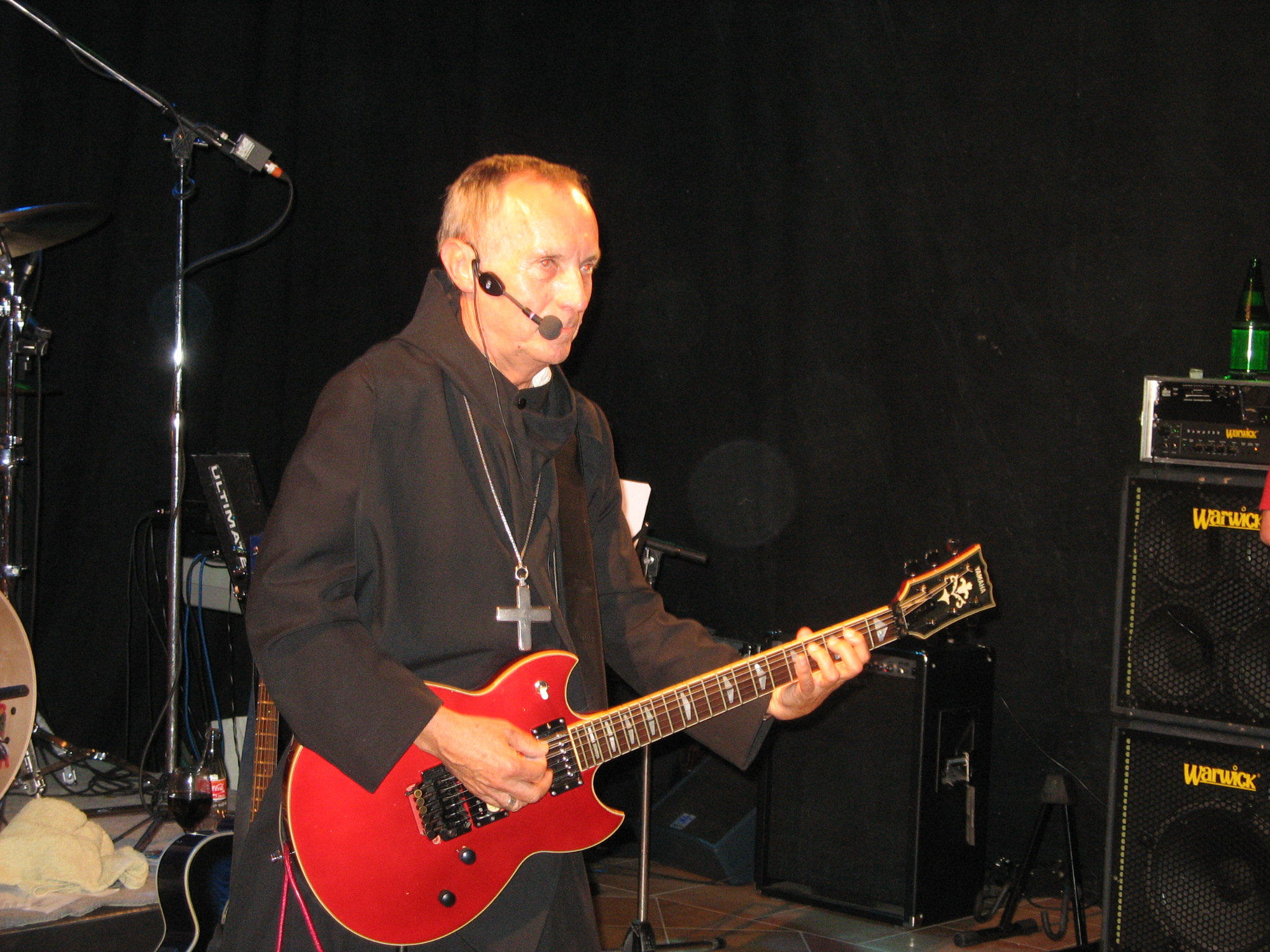 Notker Wolf playing a concert with his band Feedback.